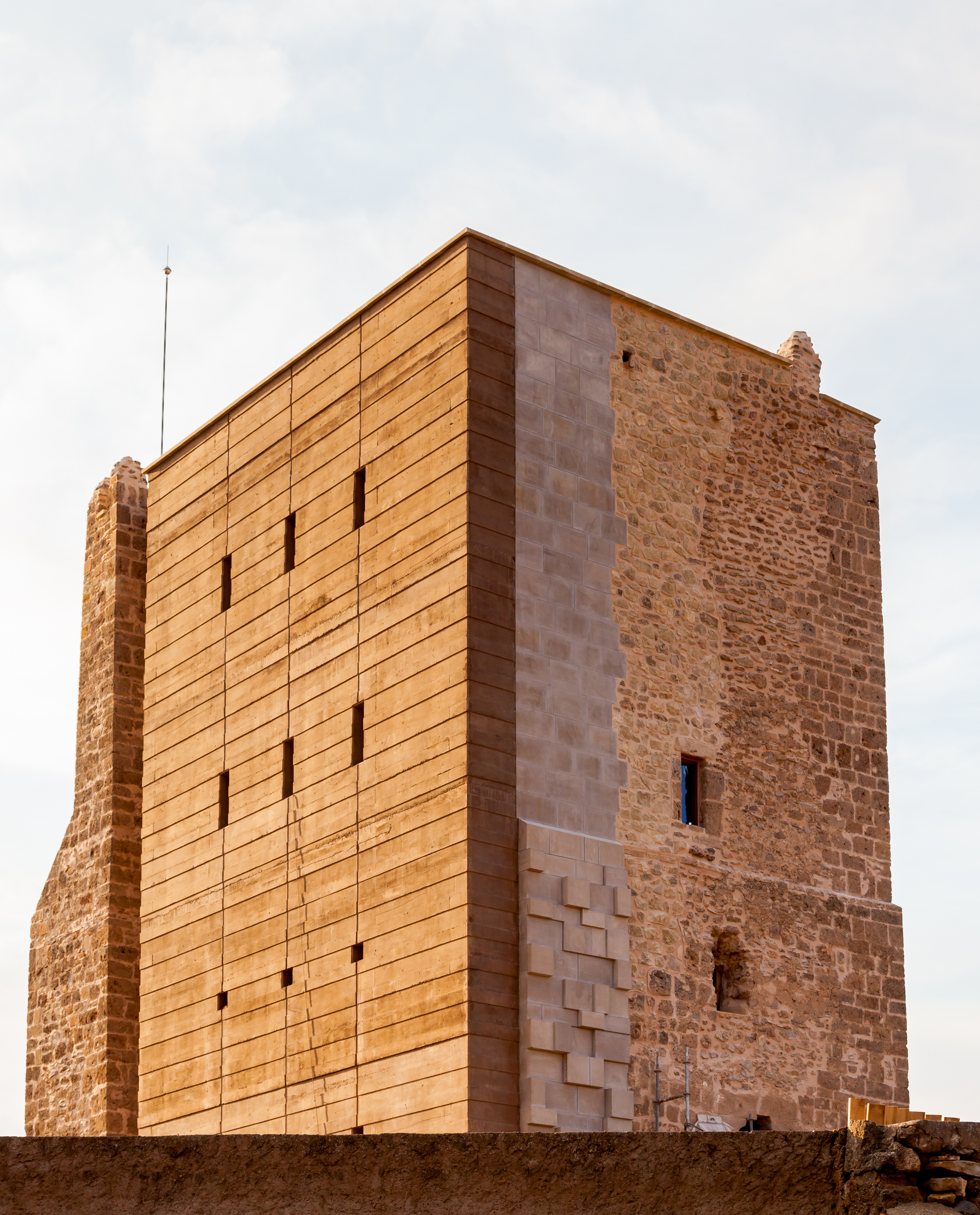 Muela Tower, Ágreda, Spain